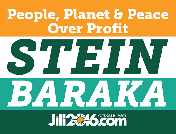 Stein/Baraka presidential campaign banner